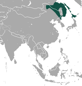 Long-clawed Shrew (Sorex unguiculatus) range